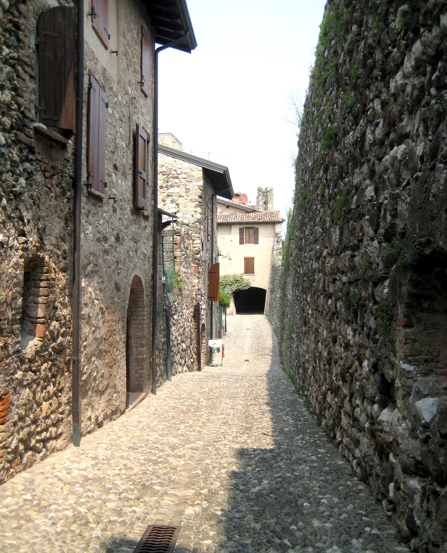 Street and houses inside the fortified town at Padenghe sul Garda.